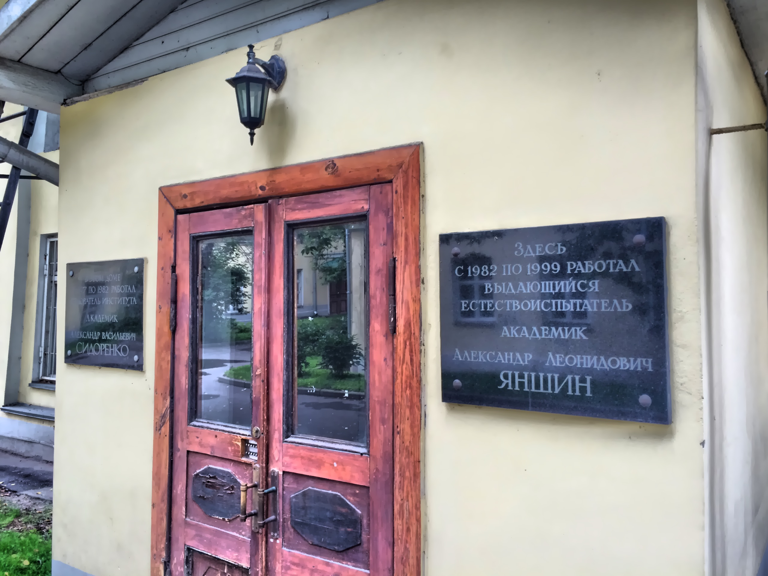 Plate on working place